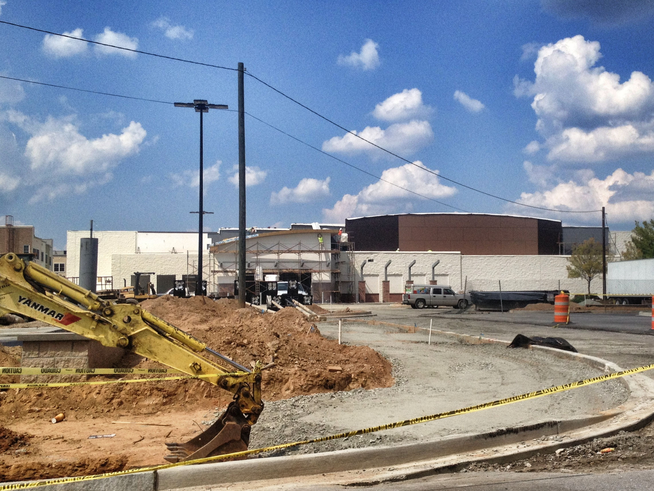 Westside Village, New development in Vine City, north side of King Dr.